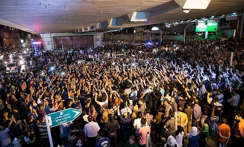 Supporters of Hassan Rouhani celebrating his election as President of Iran in 2013 election, Tehran